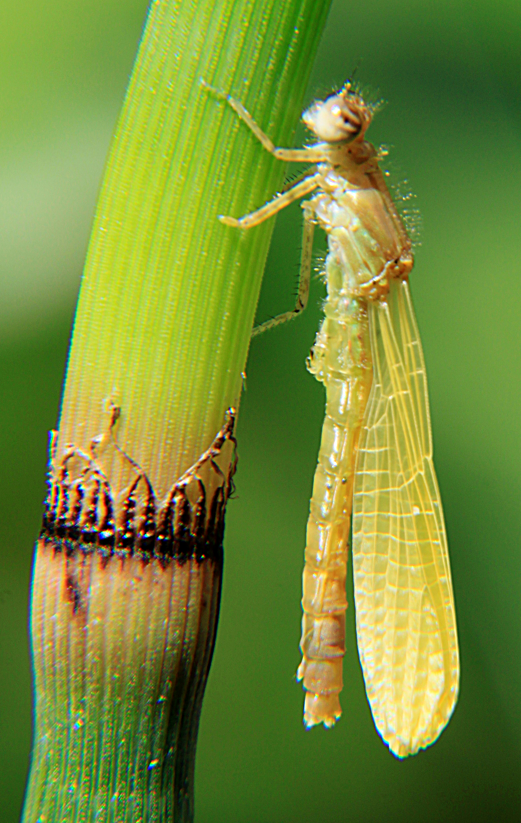 A damselfly, probably Ischnura elegans, emerging from my pond in Rozenburg, Rotterdam municipality, Netherlands, 30 June 2013.